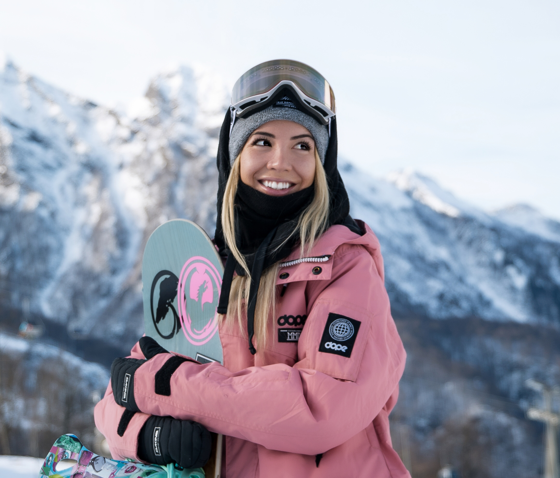 This photo shows Olga "Olya" Smeshlivaya in 2018 in Sochi (Russia).